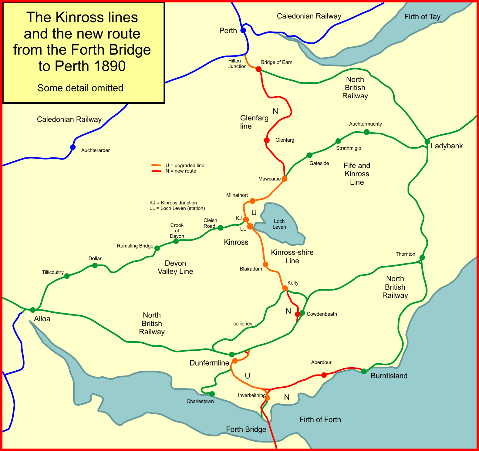 System map of the railway lines to Kinross, Scotland, on the opening of the Forth Bridge in 1890